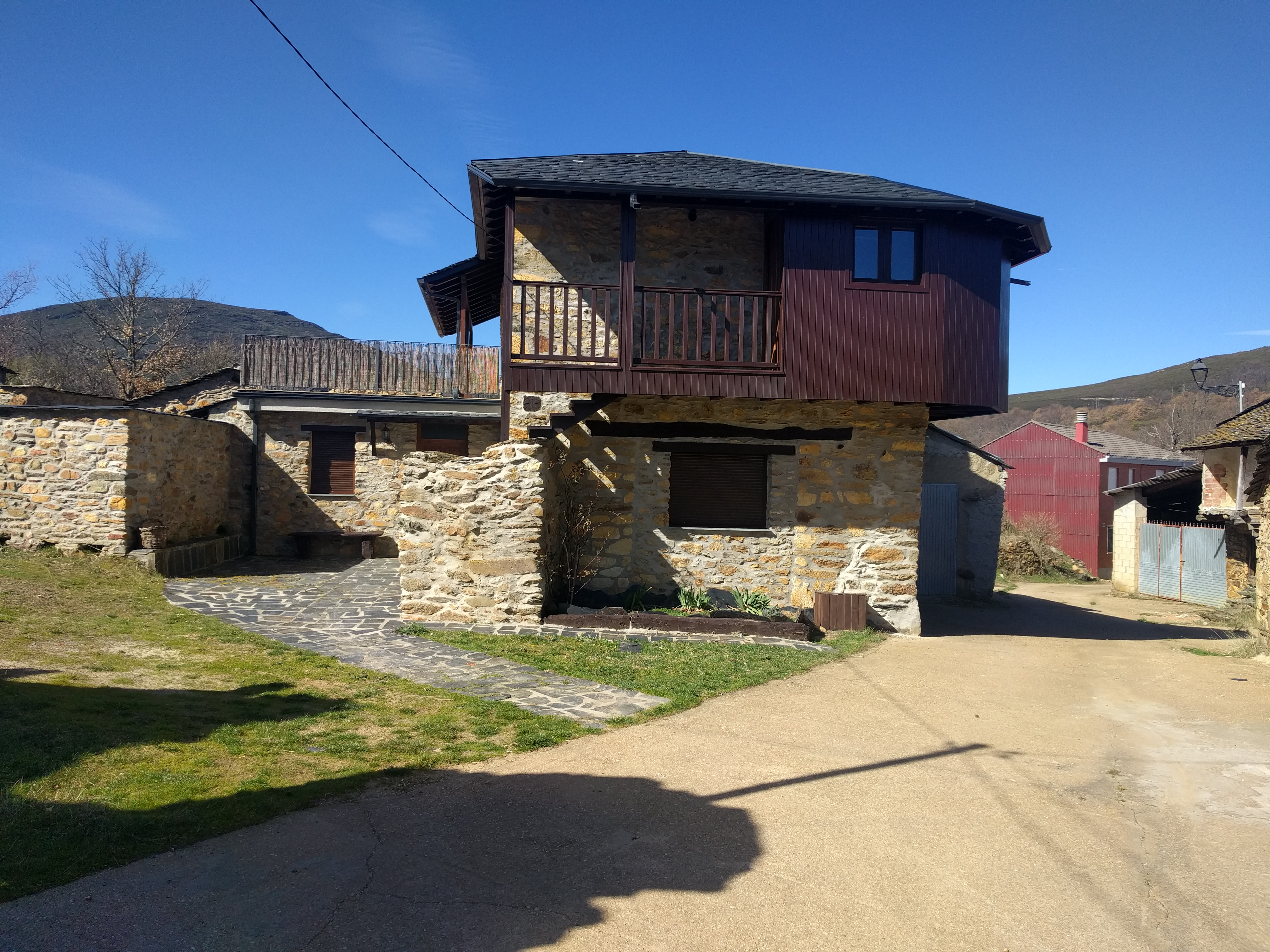 Restauración de arquitectura tradicional en Valdavido